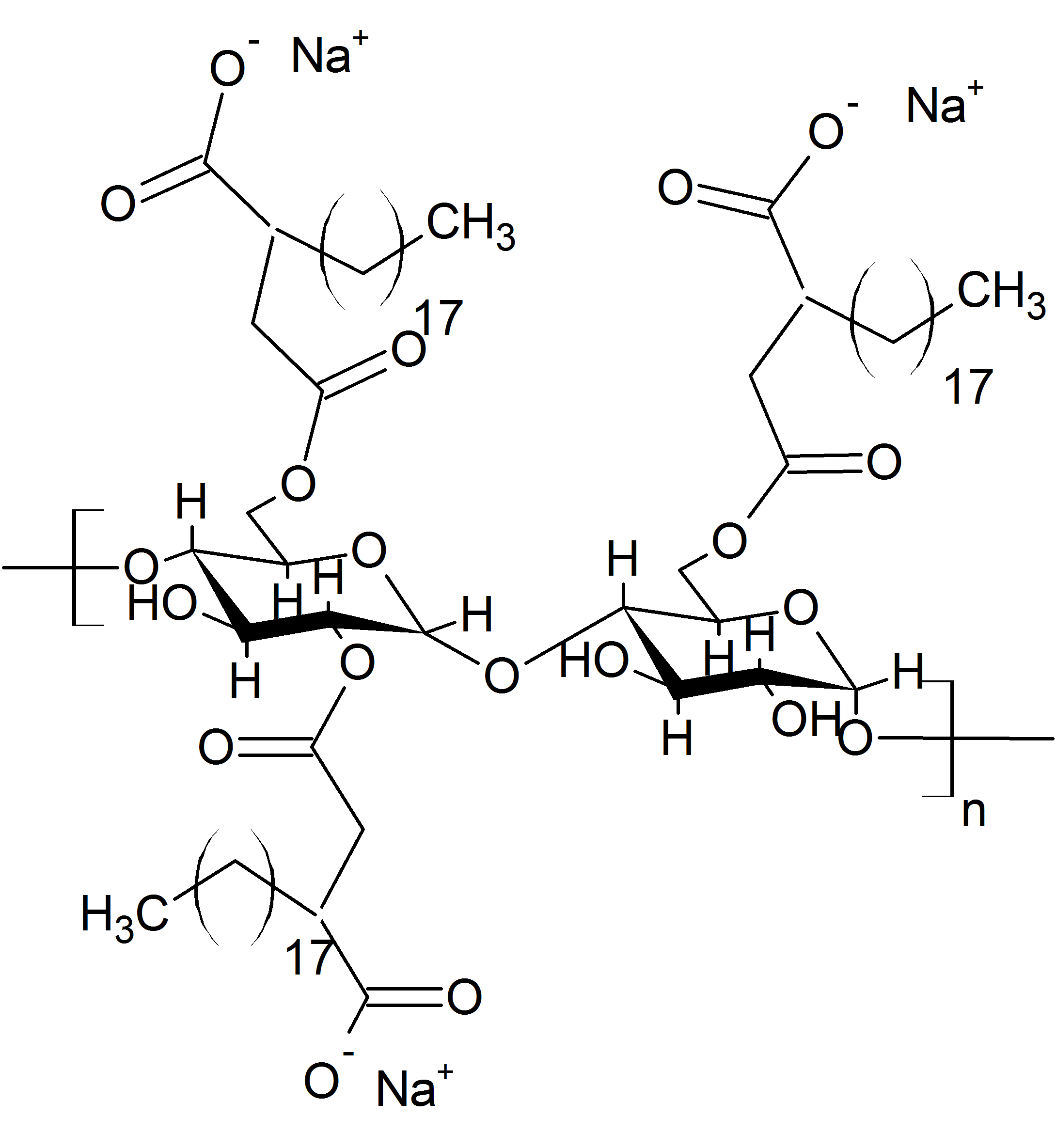 Starchsodiumoctenylsuccinate